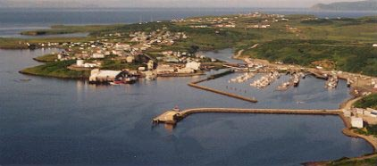 Sand Point, Alaska This is a picture I took of the southern end of the town. It shows the boat harbor, which is vital to the towns economy.